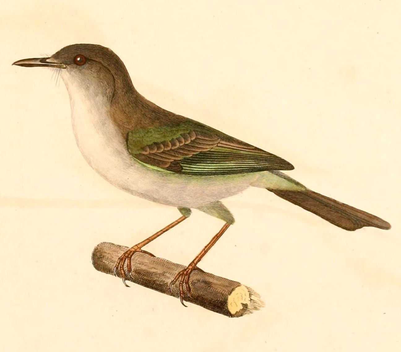 « Todirostrum margaritaceiventer » = Hemitriccus margaritaceiventer (Pearly-vented Tody-Tyrant)